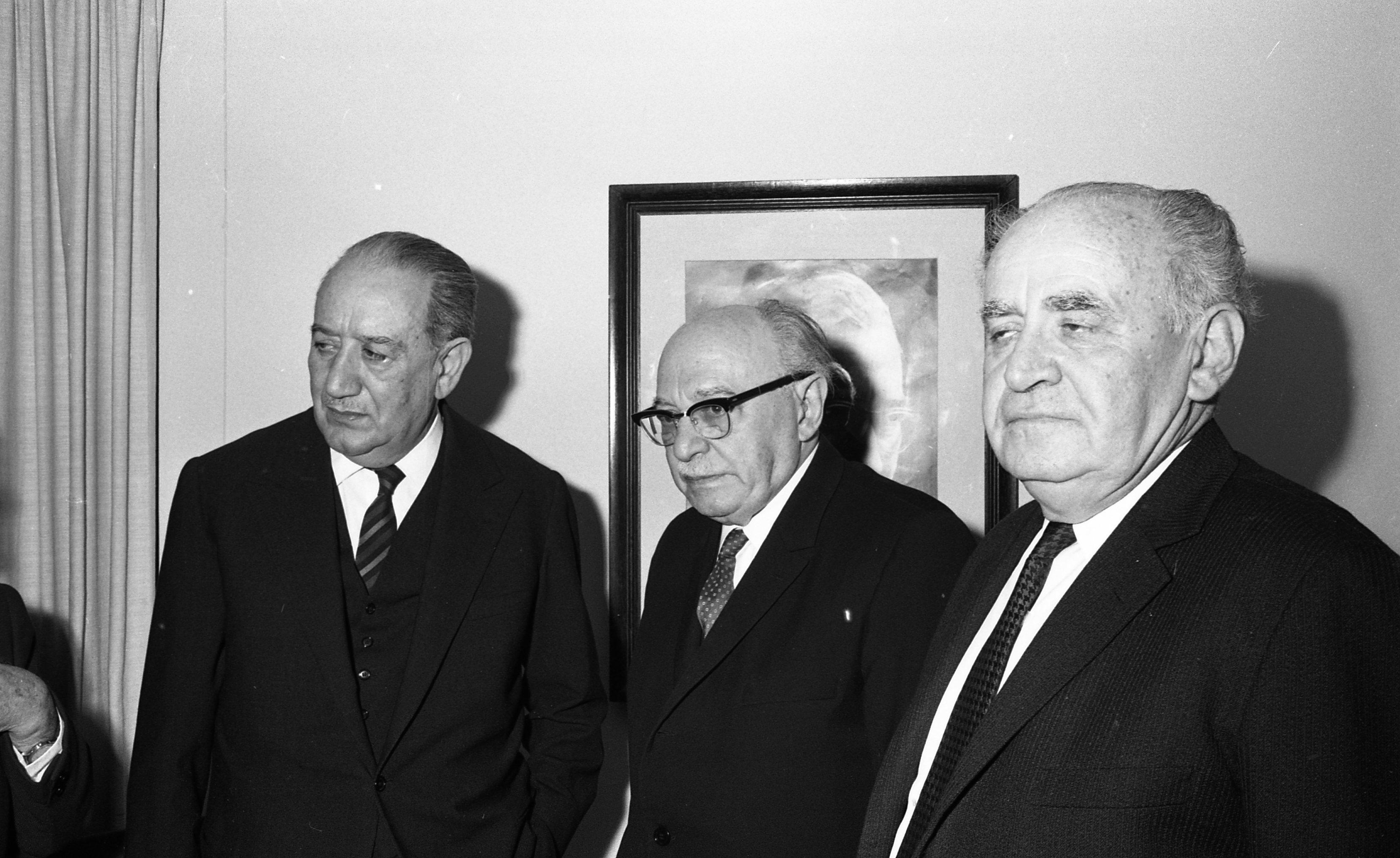 Jerusalem International Book Fair, 1969.